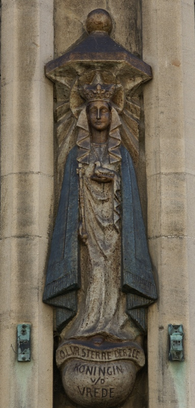 Our Lady of the Sea, Queen of Peace, Sint Jacobstraat, Maastricht, The Netherlands. By Jean Sondeijker, 1947.